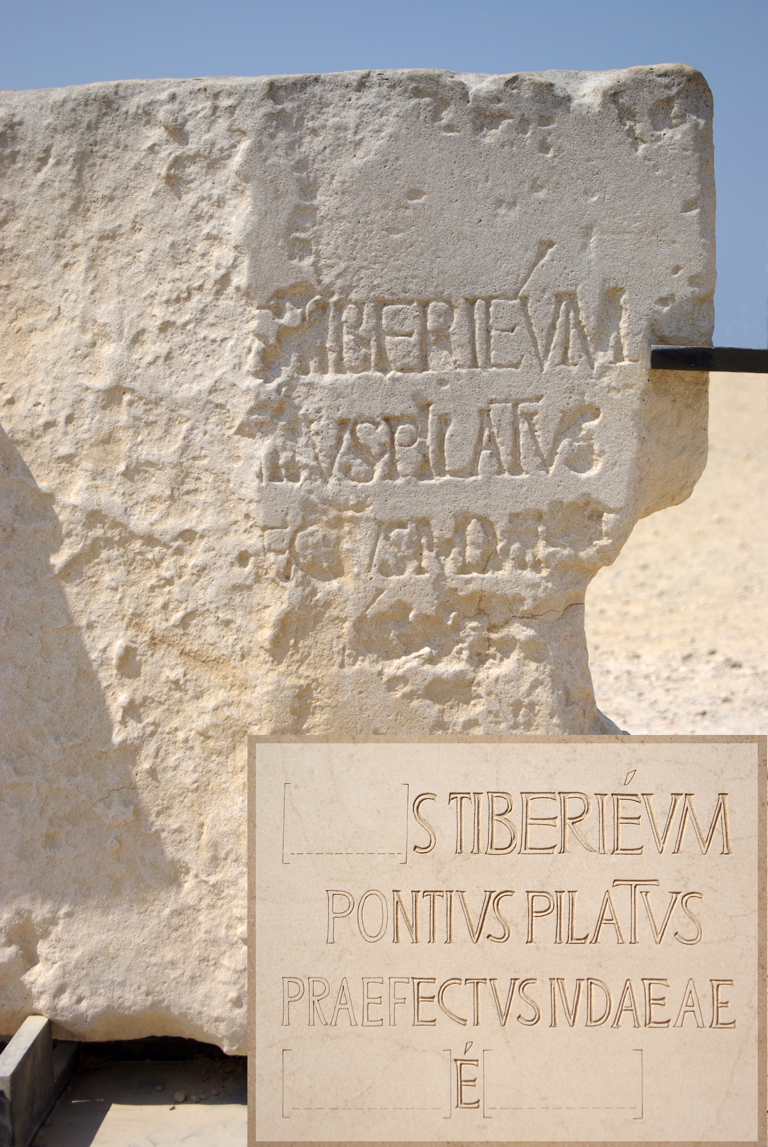 Caesarea maritima, Stone with engravement of the name of Pontius Pilatus 2nd Line: ...vs Pilatvs